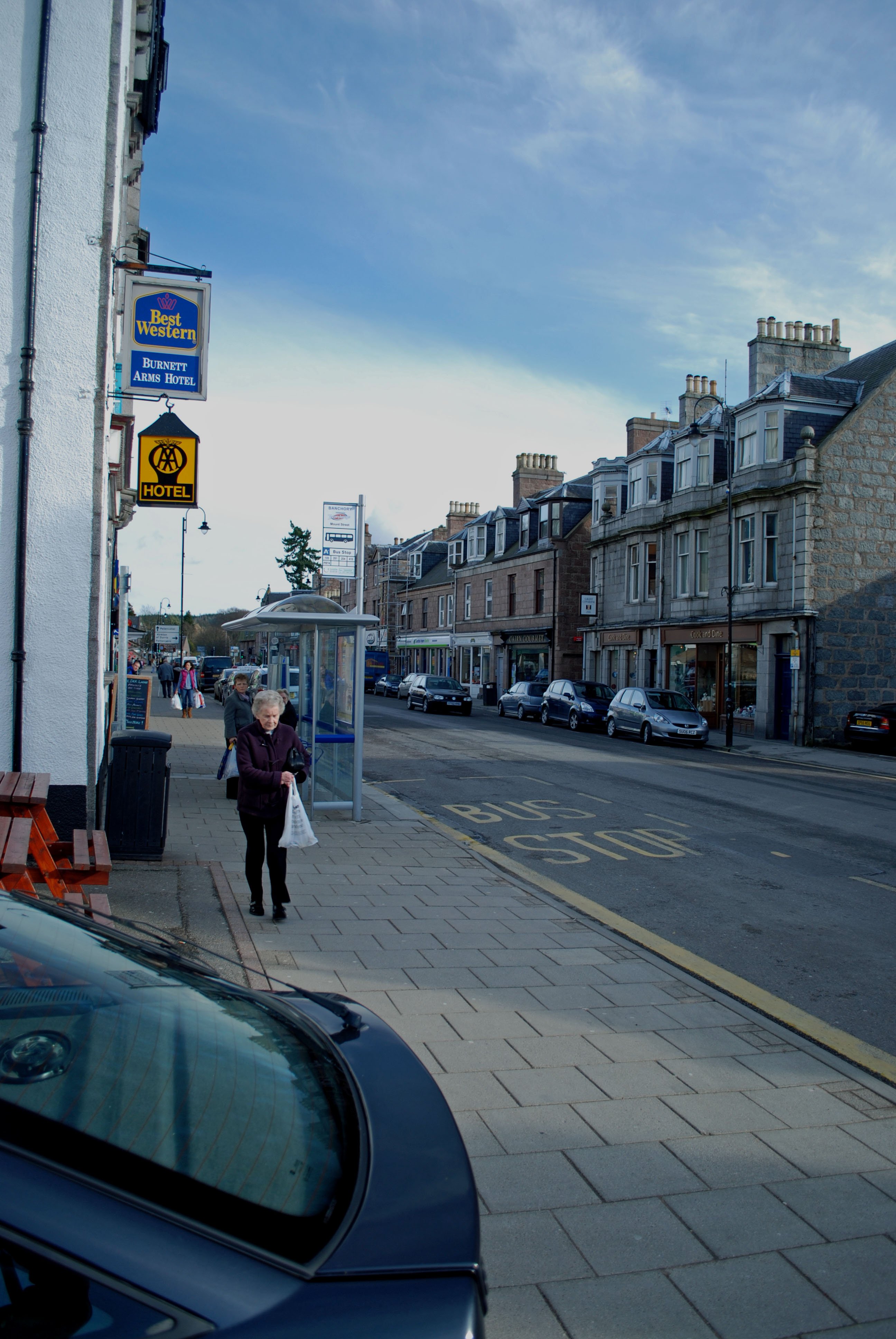 Banchory highstreet